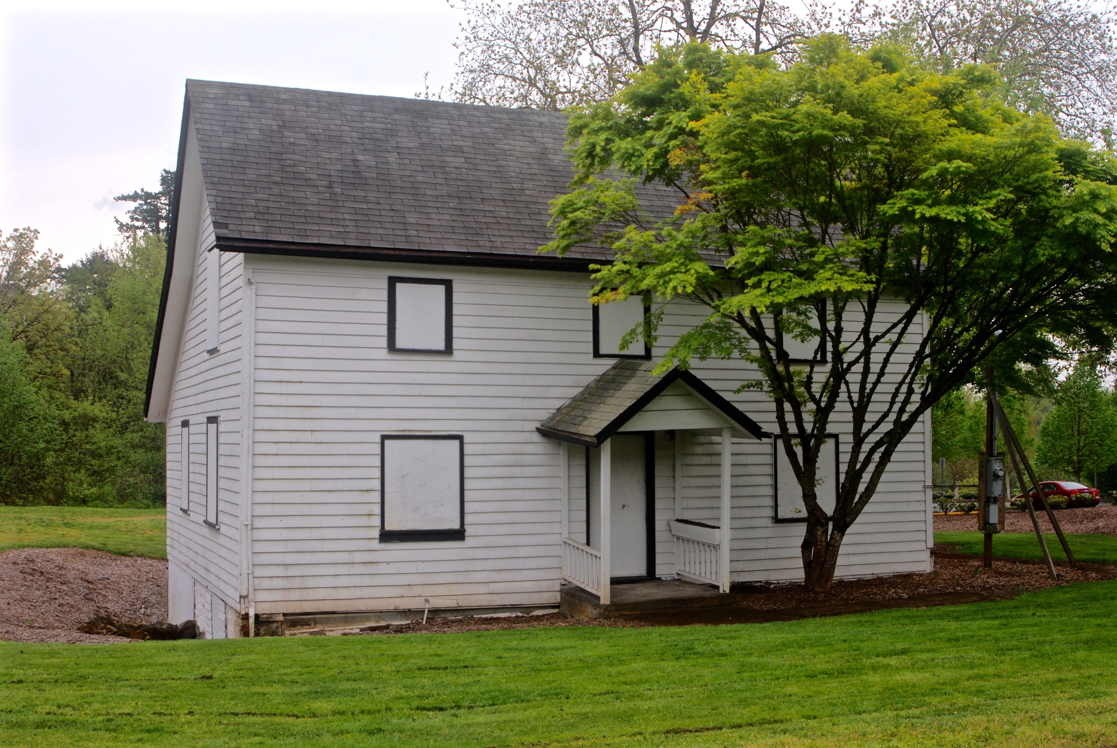 The historic John Quincy Adams and Elizabeth Young House (built 1869), located at 12050 Northwest Cornell Road in the unincorporated community of Cedar Mill, Oregon (west of Portland), is listed on the U.S. National Register of Historic Places (NRHP). The Tualatin Hills Park & Recreation District owns the house, and hopes to restore it when and if funds become available. This view is of the front of the house, its north side (facing Cornell Road).